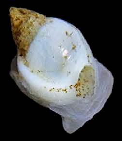 Photo of a live Ringicula doliaris.